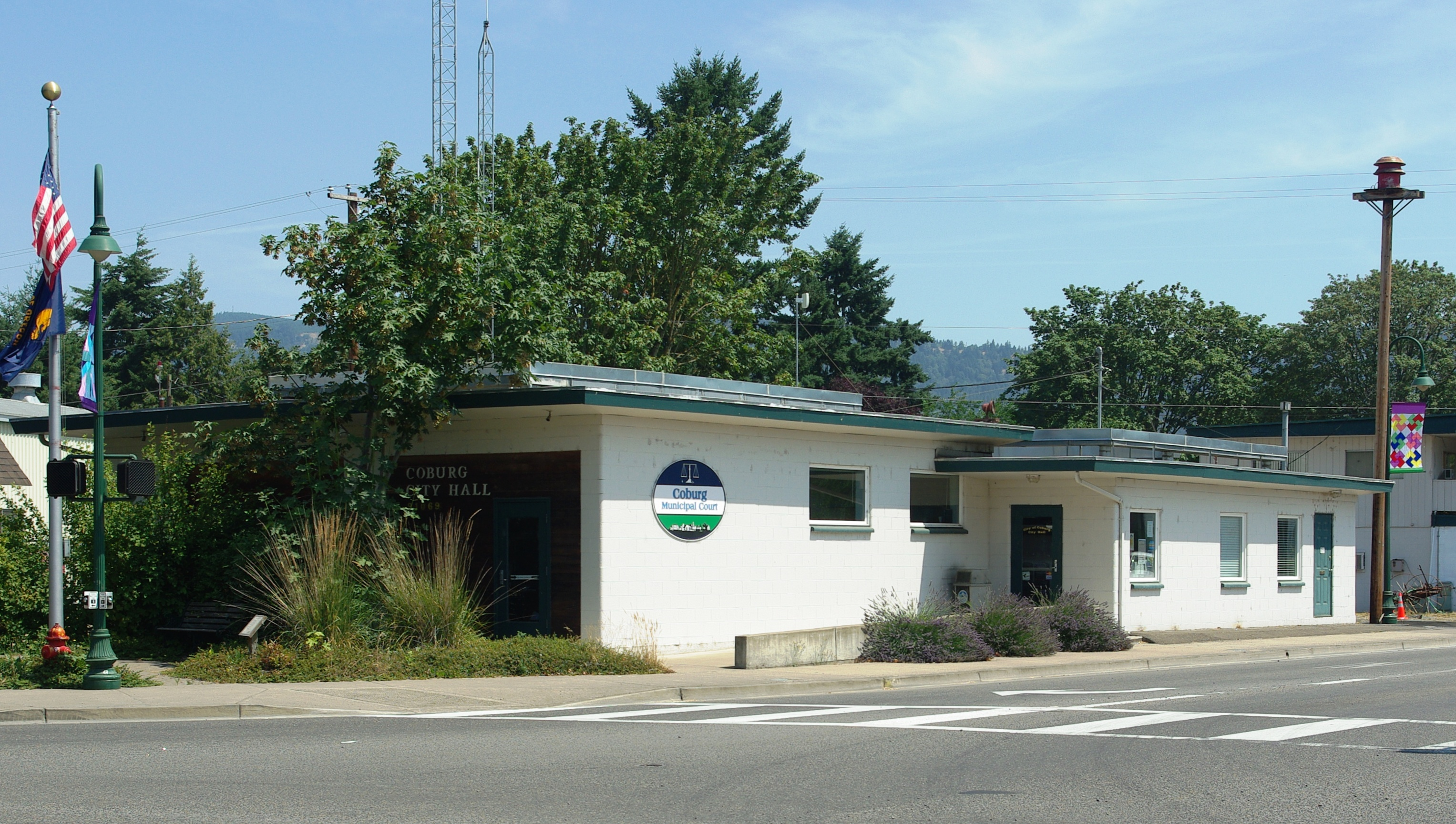 Coburg, Oregon, USA. City hall and court.